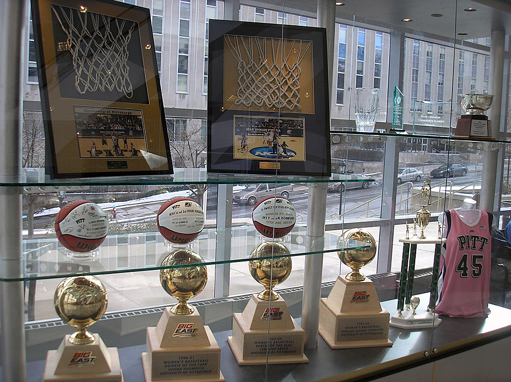 University of Pittsburgh women's basketball trophy case in the lobby of the Petersen Events Center as seen in December of 2008.